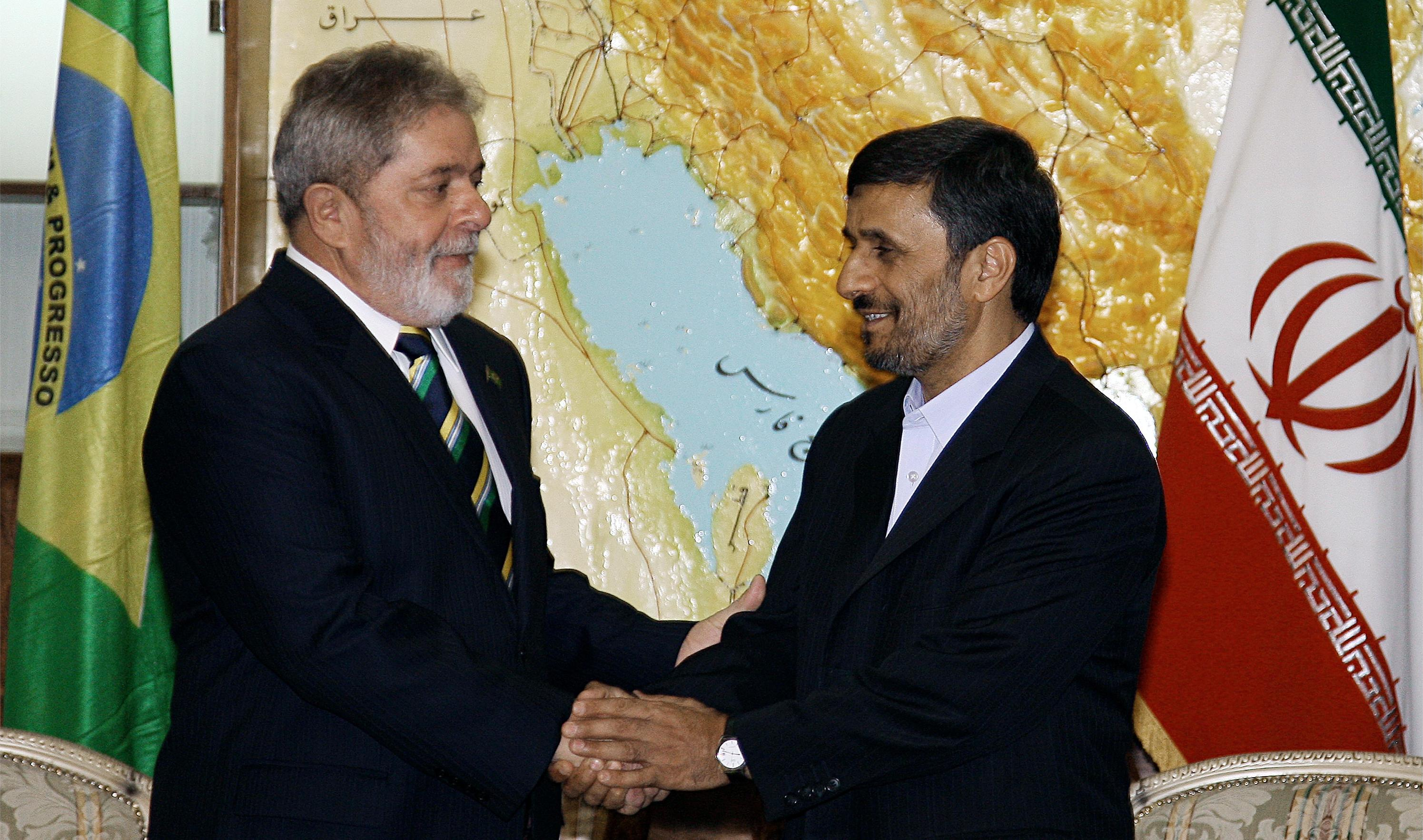 President Luiz Inácio Lula da Silva arrives in Iran. Tehran, Iran - President Luiz Inácio Lula da Silva is greeted by the president of Iran, Mahmoud Ahmadinejad. (Ricardo Stuckert / PR).